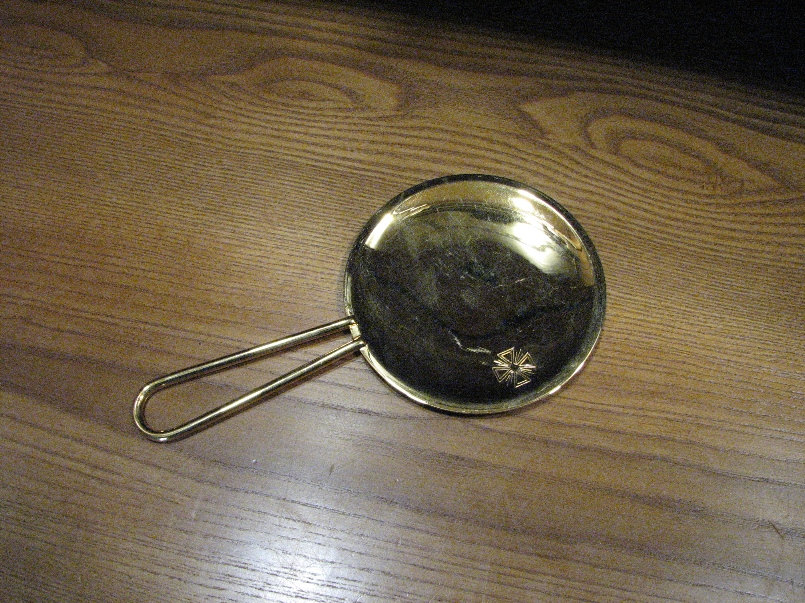 Communion paten with handle used in Catholic church during the Eucharist.